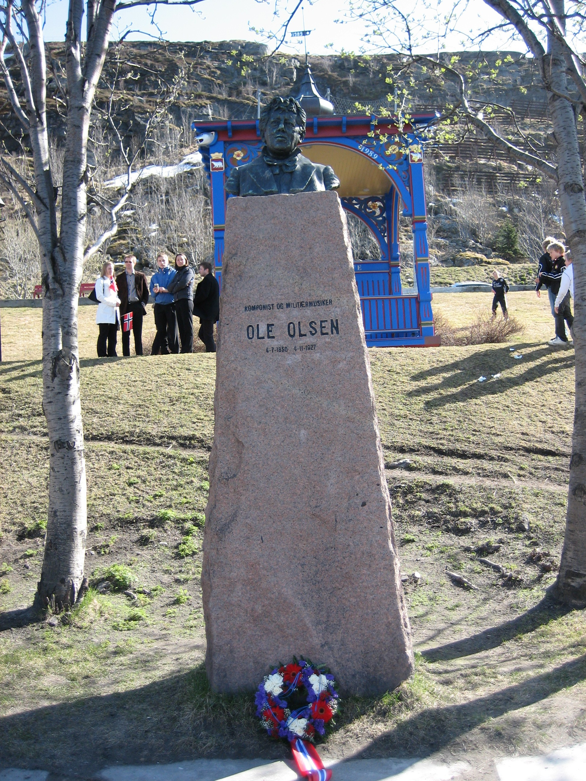 Picture of the Ole Olsen monument in Hammerfest, taken by me on 17 May 2007 Manxruler 21:50, 8 June 2007 (UTC)